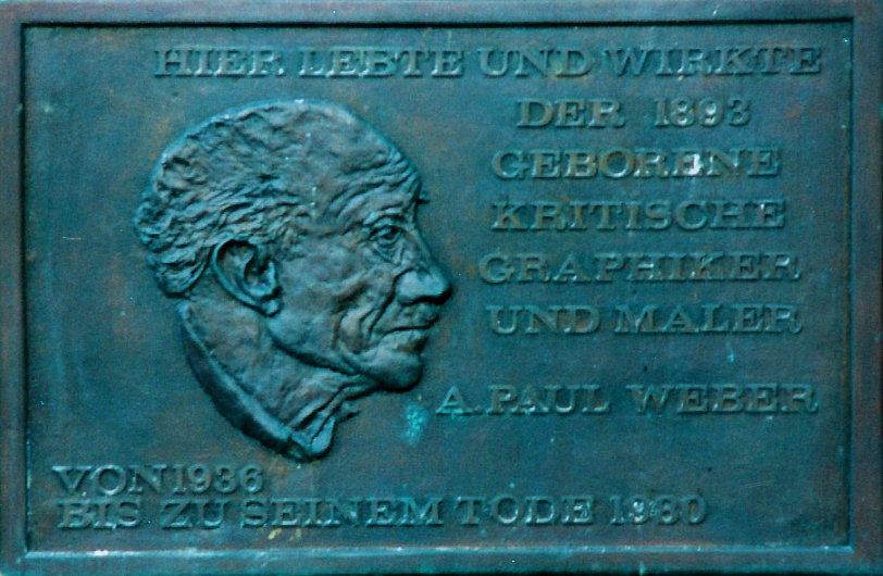 Picture shows the A. Paul Weber memorial tablet in a wall in front of his former home in Schretstaken (Germany).